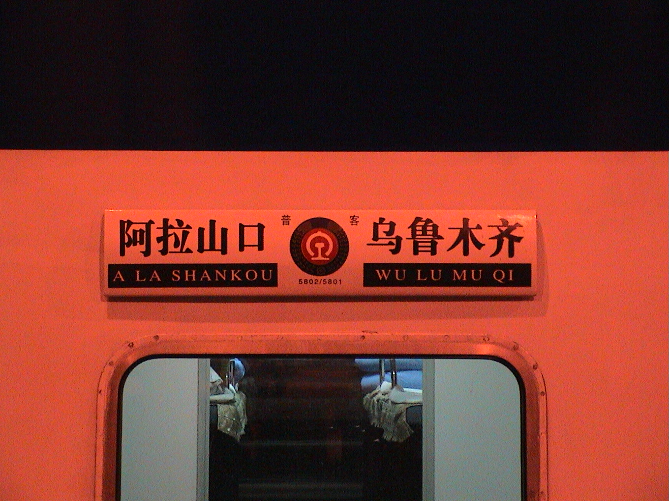 Ürümqi railway station to Alataw Pass railway station 北京时间2006年04月25日21时54分08秒摄于乌鲁木齐站。 This image was taken by User:Yaohua2000 at 2006-04-25 13:54:08 UTC.